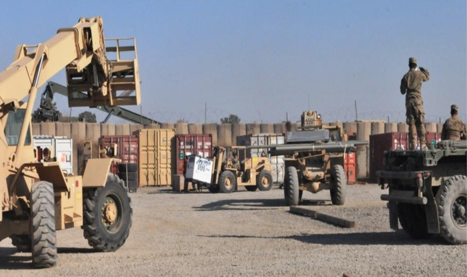 Retrograde operations